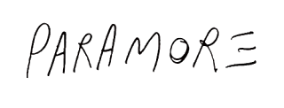 New Paramore logo